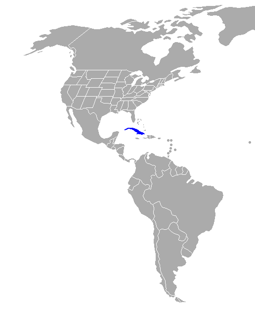 Range of Vireo gundlachii